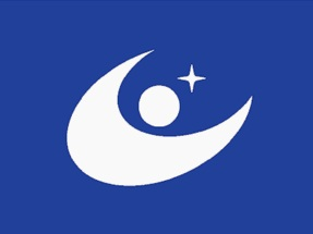 Flag of Jinsekigogen, Hiroshima